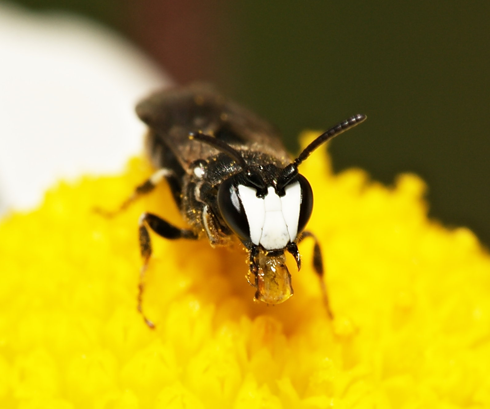 male Hylaeus nigritus from a meadow near Nettersheim, Germany.